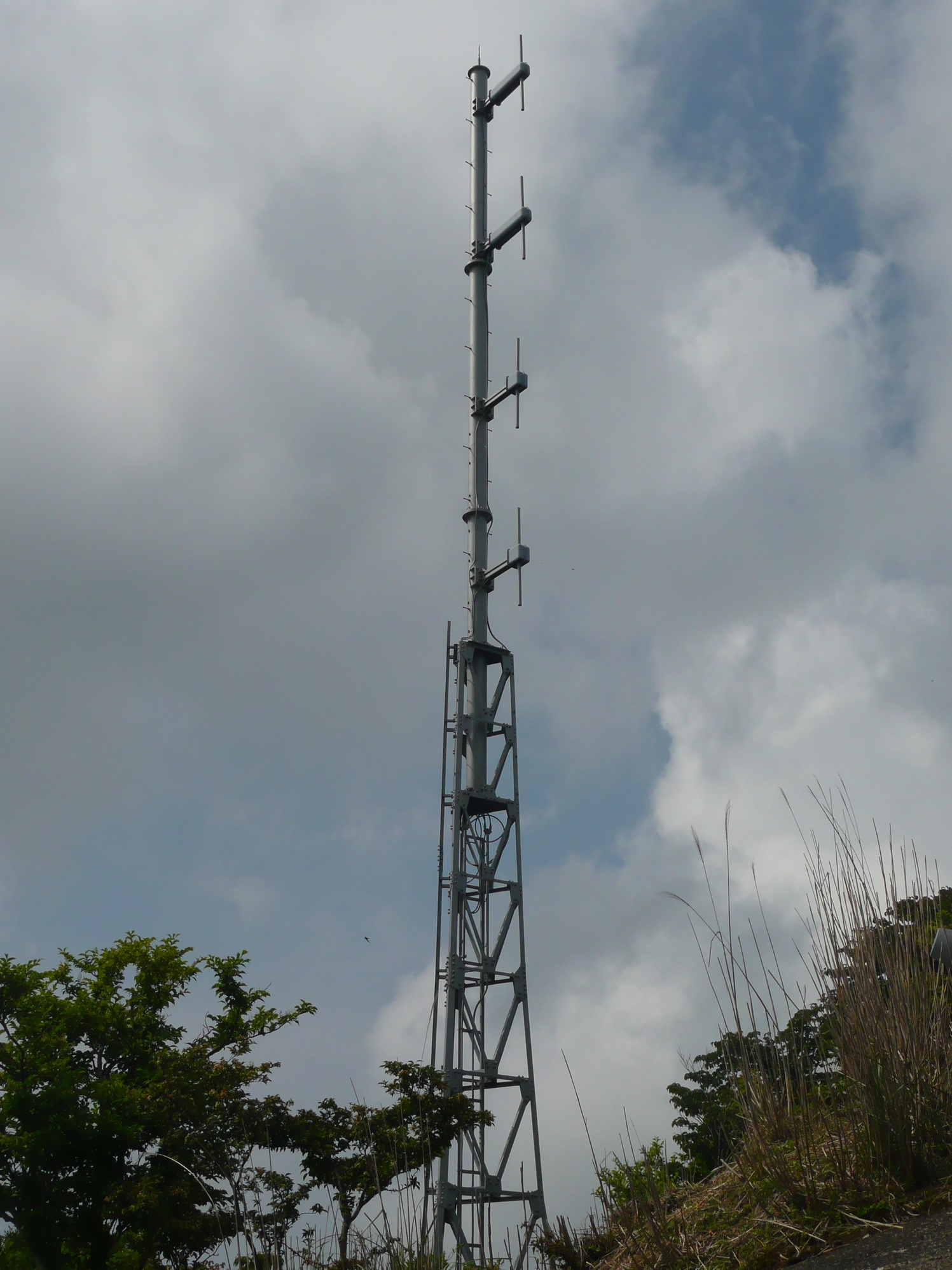 NHK Kagoshima (JOHG-FM) and FM Kagoshima (μFM, JOOV-FM) Akune Repeater (Mt. Shibisan - Satsuma Town, Kagoshima, Japan)